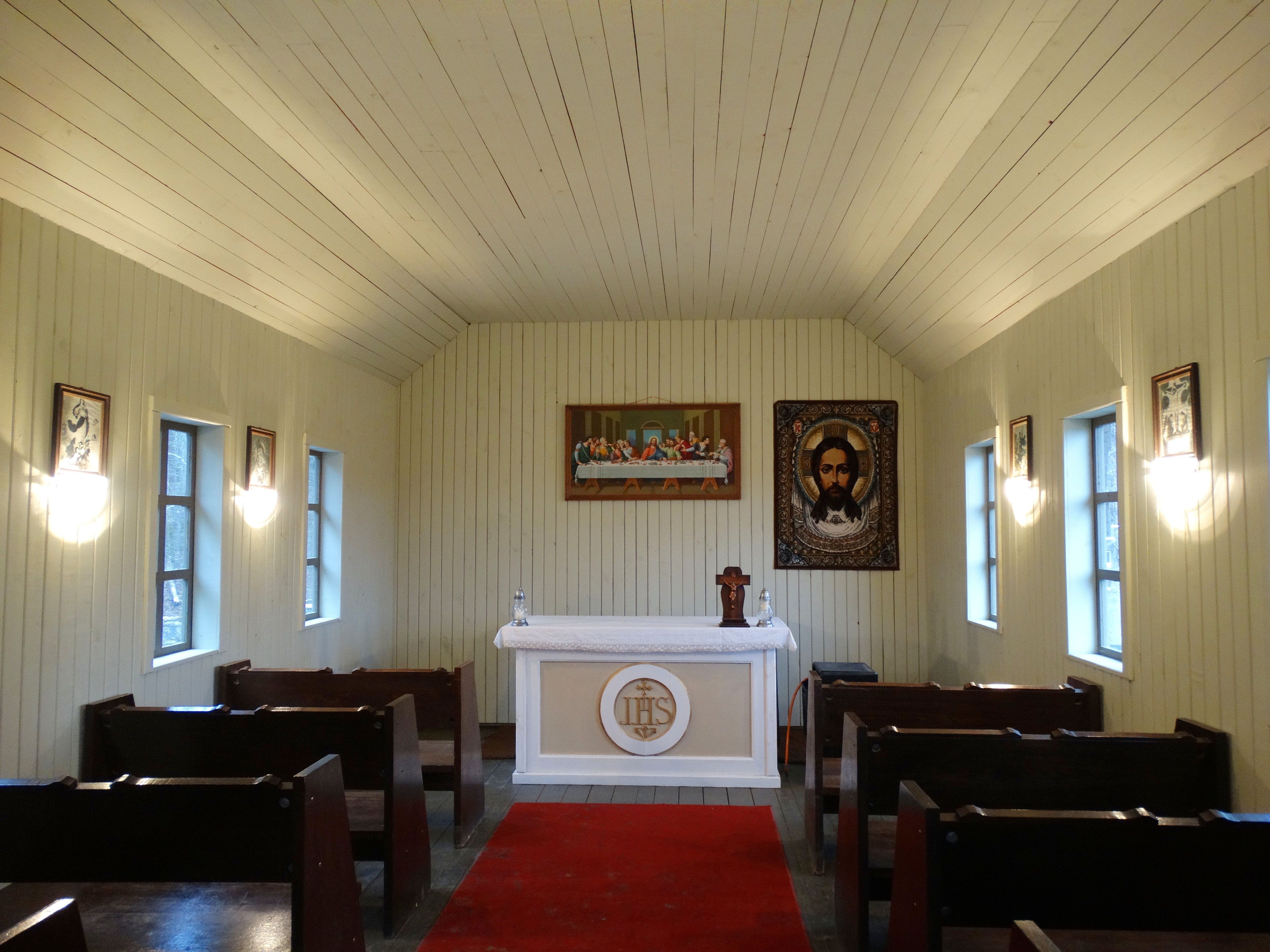 Pajūris cemetery chapel, interior, Tauragė district, Lithuania